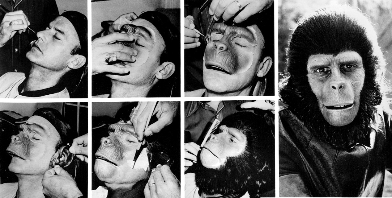 Photos of Roddy McDowall's makeup work for the television series Planet of the Apes.